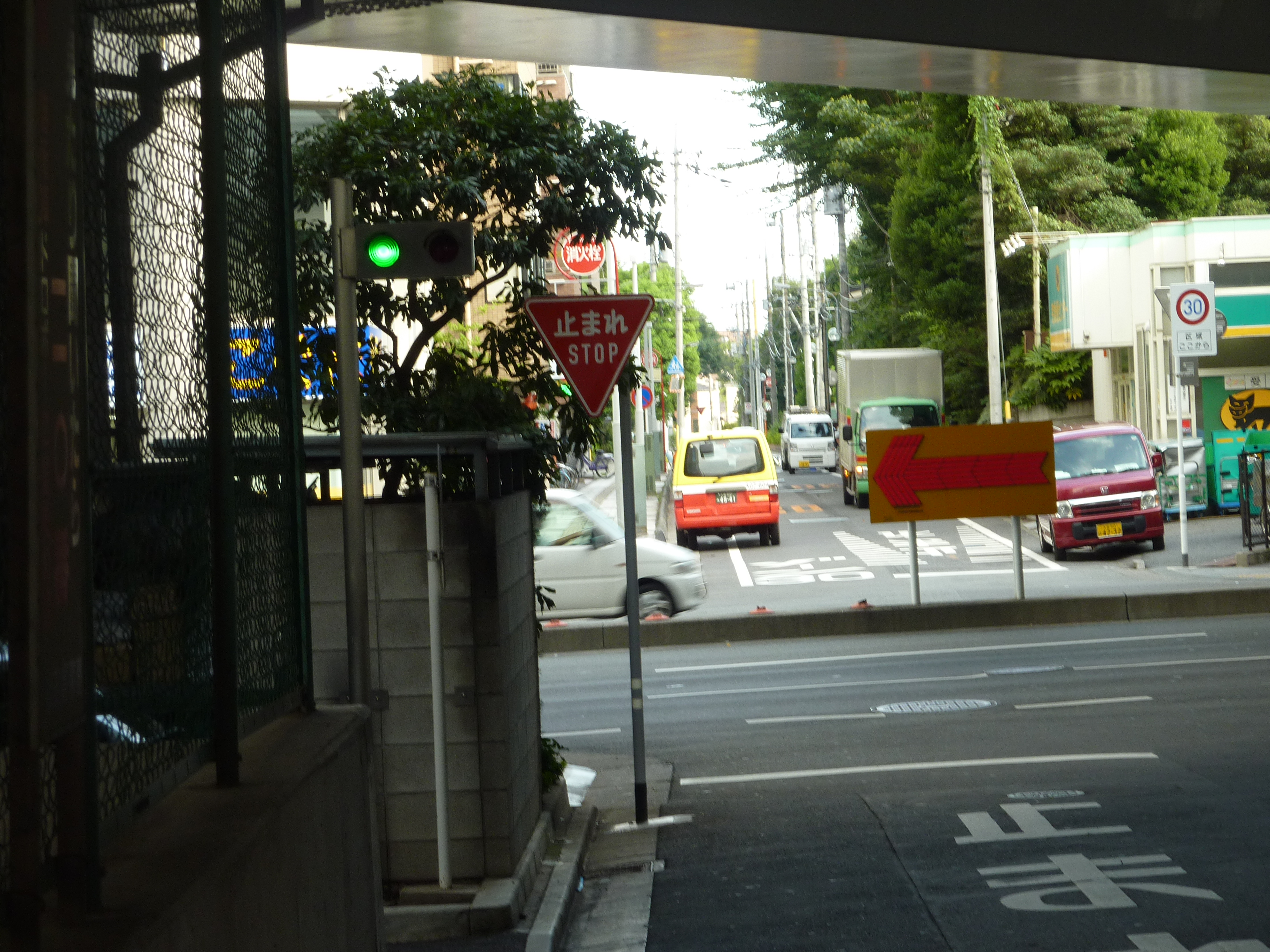 near Kitayono Station.